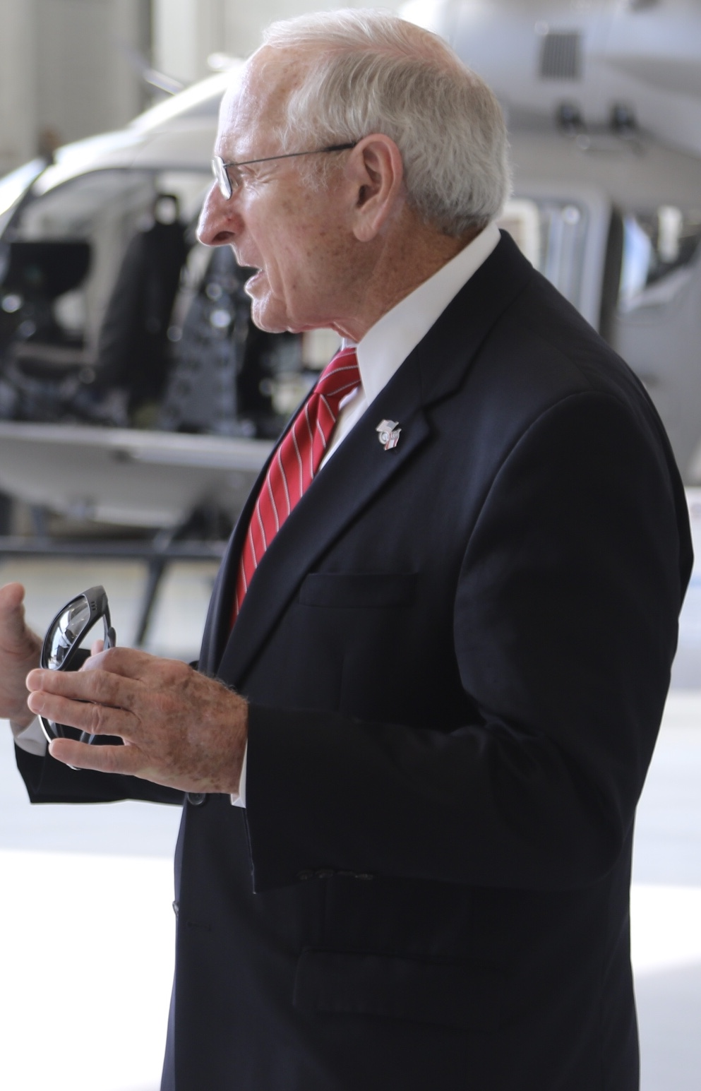 Original description: CLAY NATIONAL GUARD CENTER, Marietta, Ga., August 18, 2016 - Hall of Fame Coach Vince Dooley, retired University of Georgia Head Football Coach a speaks with Maj. Ernest Polk of the 78th Aviation Troop Command during a visit to the Clay National Guard Center.